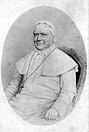 Pope Pius IX.